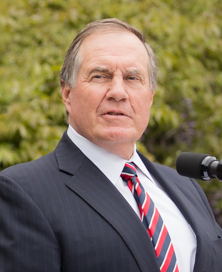 New England Patriots Coach Bill Belichick delivers remarks during the team's visit to the White House celebrating their Super Bowl LI victory on the South Lawn, Wednesday, April 19, 2017. (Official White House Photo by Shealah Craighead).